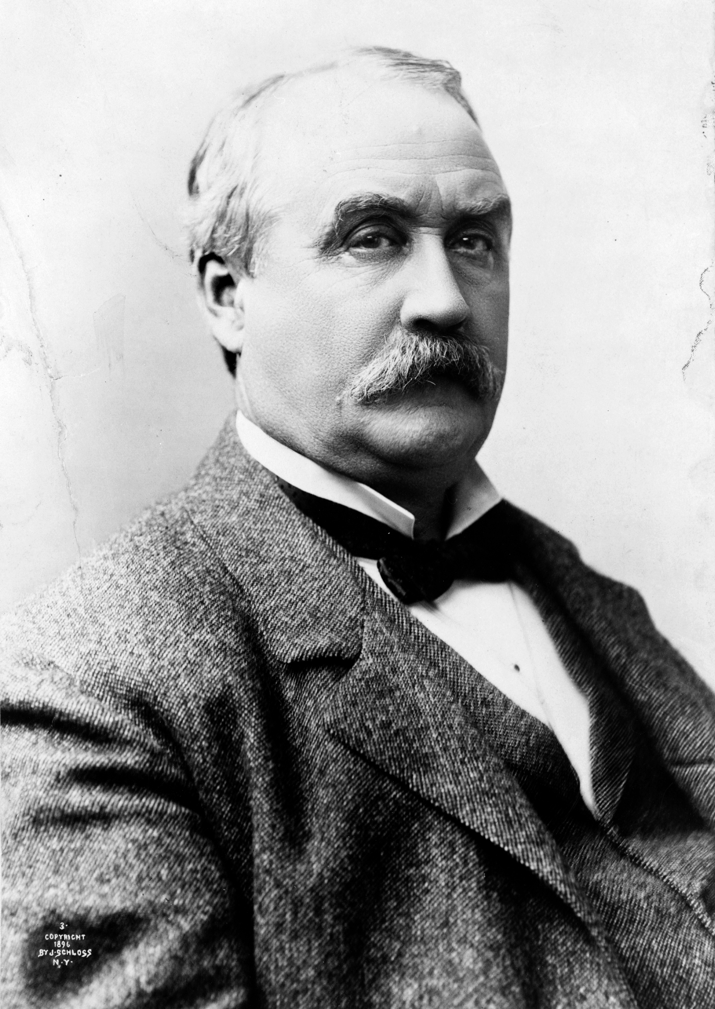 Warner Miller, U.S. Senator from New York